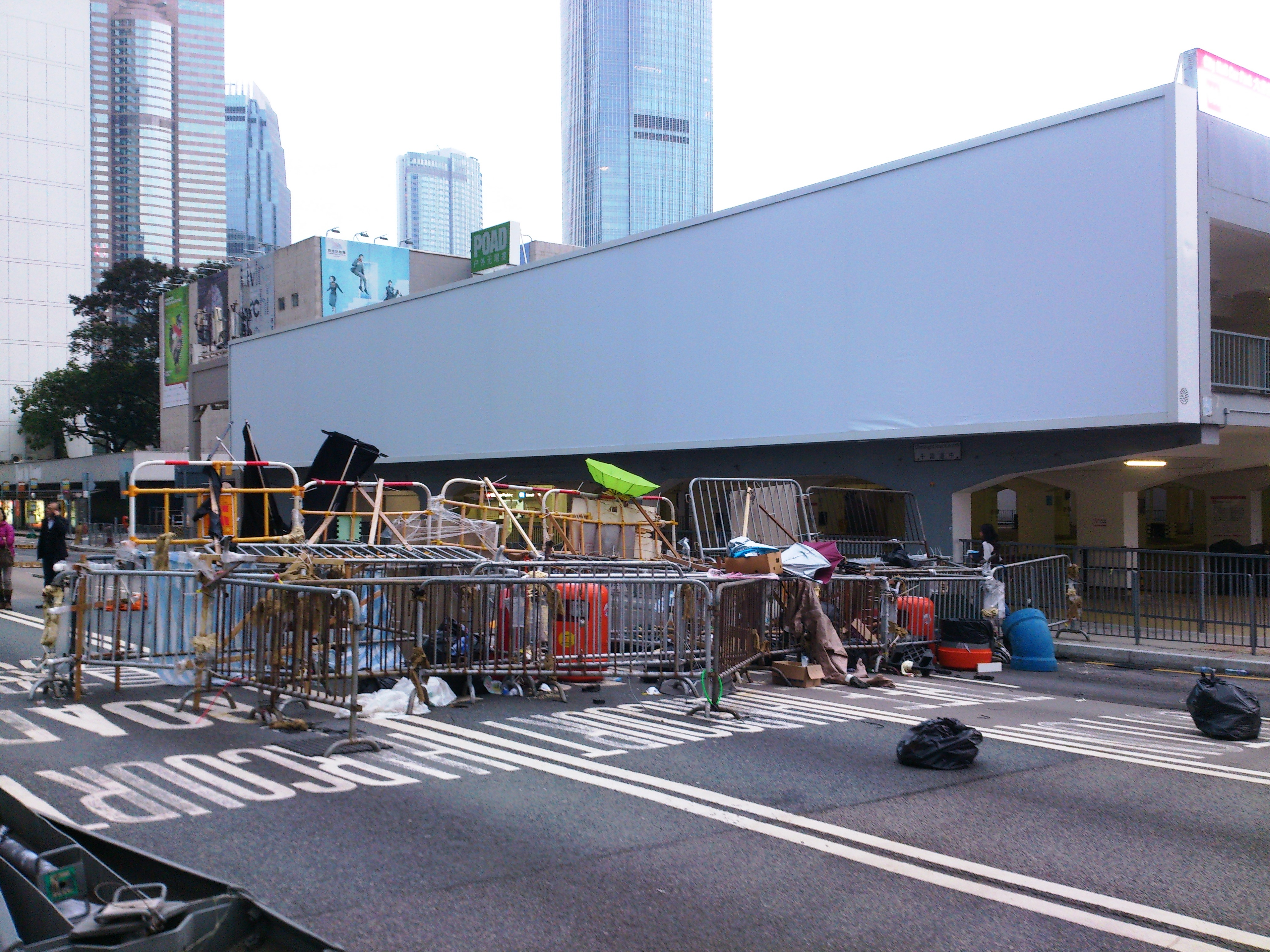 Road block on Connaught Road Central near City Hall Car Park on 2014-12-07